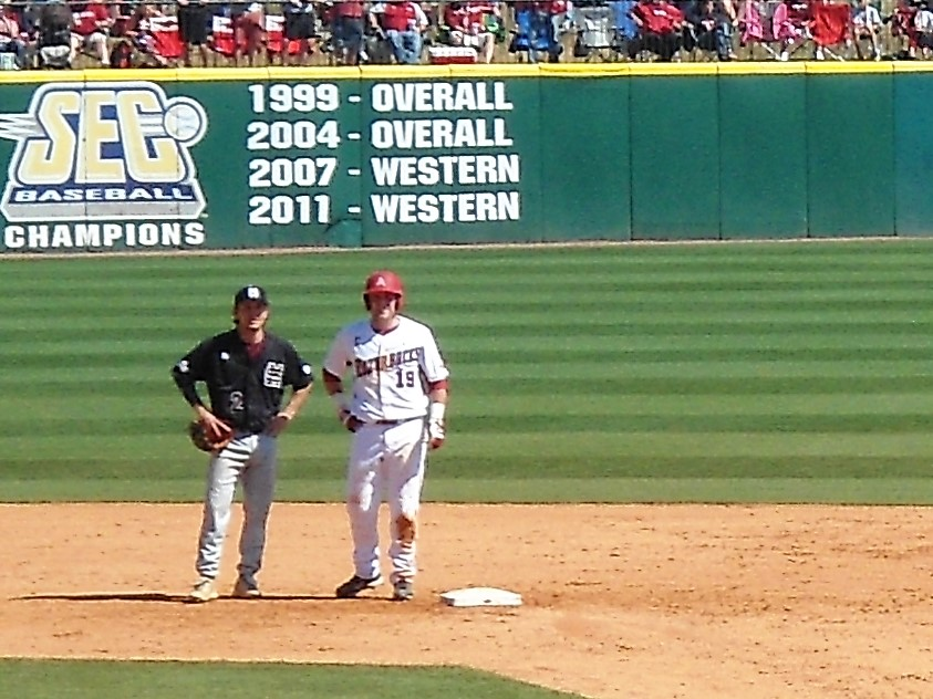 Arkansas Razorbacks player Jake Wise converses with Mississippi State Bulldogs Adam Frazier while coach Dave Van Horn converses with umpires